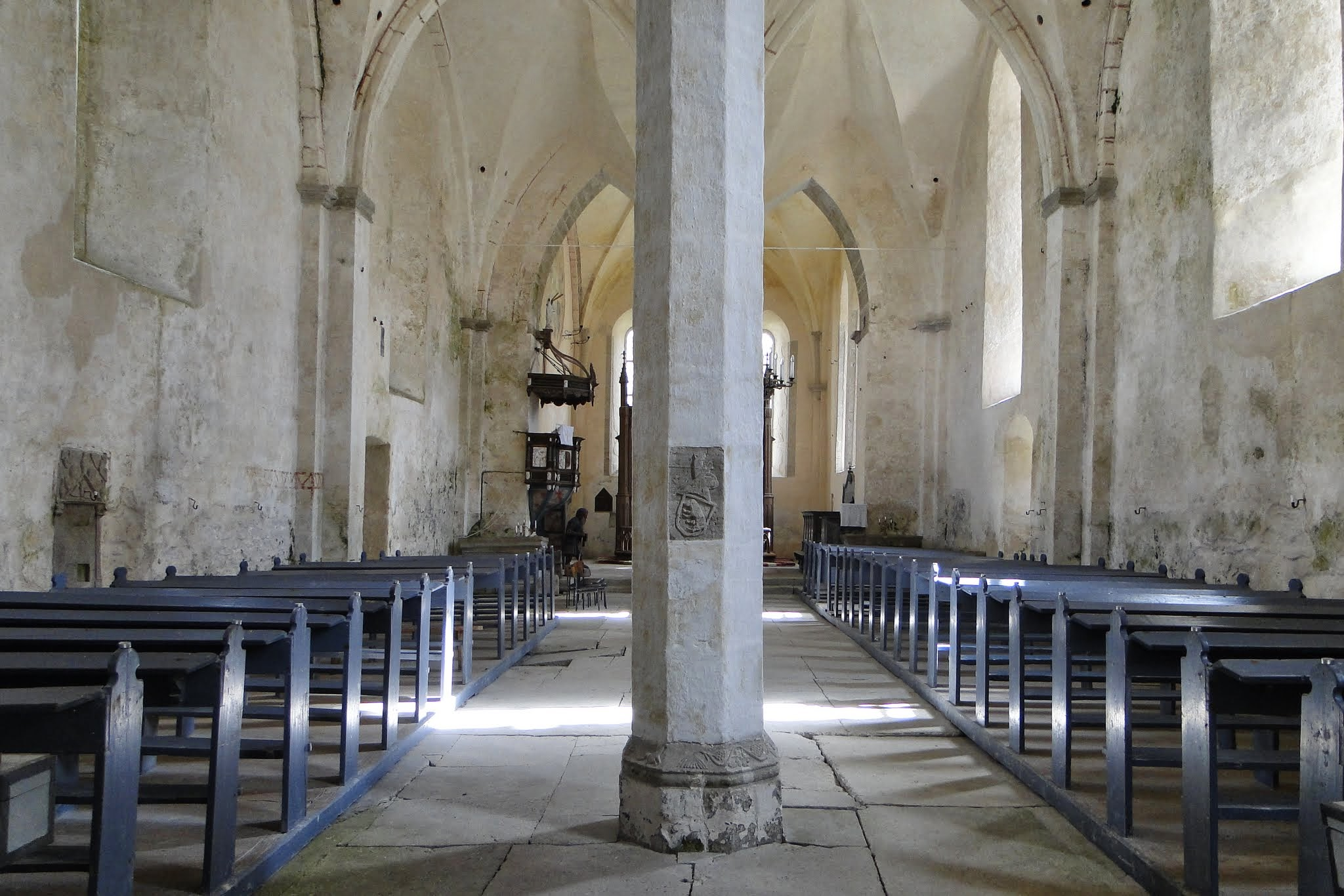 Kaarma Church (inner view)